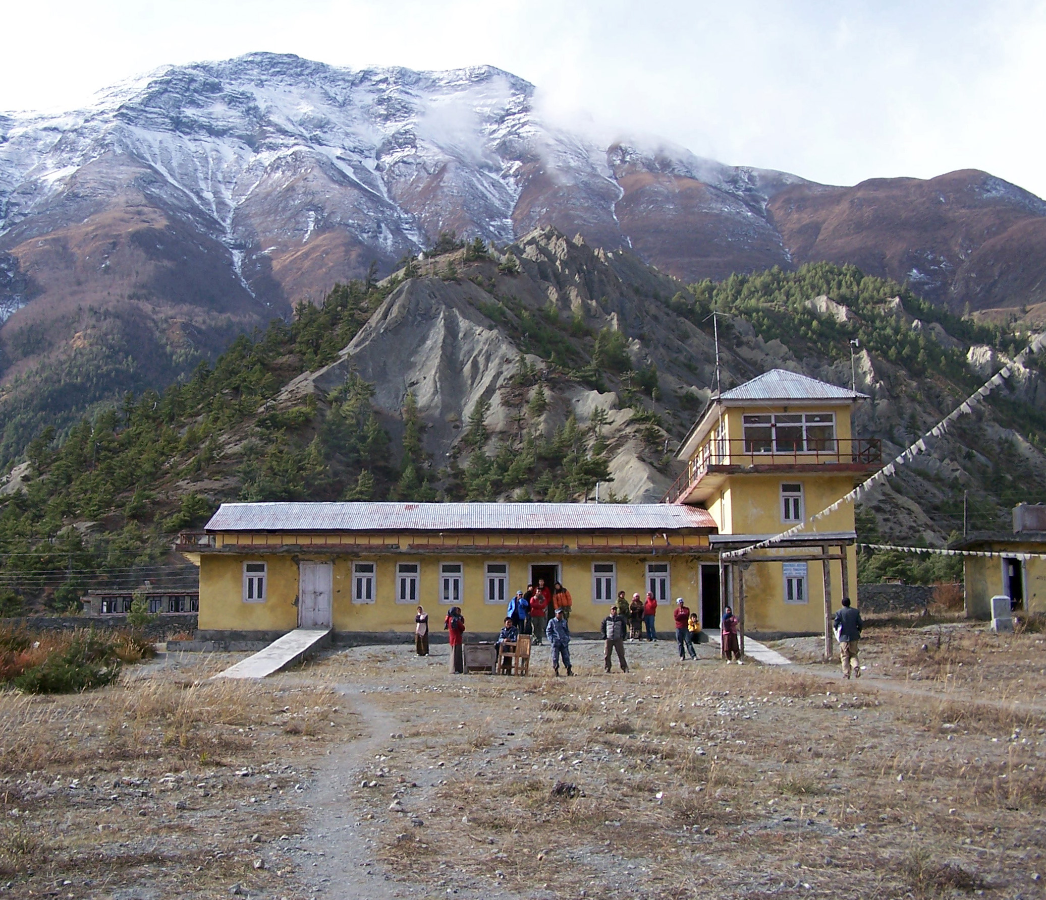 Manang Airport in Humde village, Nepal